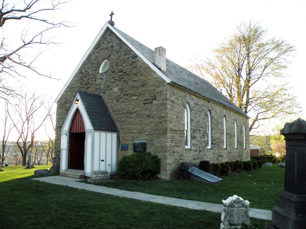 Picture of Old St. Luke's Episcopal Church at 330 Old Washington Pike in Scott Township, Allegheny County, Pennsylvania, on April 10, 2010. The stone church was built in 1852, though services had been held on the spot in a stockade as early as 1765. The church is on the List of Pittsburgh Landmarks recognized by the Pittsburgh History and Landmarks Foundation (PHLF). A sign near the church says the following: "Old St. Luke's Church - Oldest Episcopal Church in southwestern Pennsylvania, founded after the French & Indian War by veteran Maj. William Lea on his land grant. Francis Reno was the first vicar. Church members included Gen. John Neville, the unpopular tax collector in the 1794 Whiskey Rebellion that disrupted the area and unsettled the congregation. Renewed interest in 1852 led to this stone church, with its 1823 English pipe organ, the first brought over the Alleghenies. Pennsylvania Historical & Museum Commission 2001."